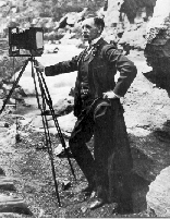 William Henry Jackson, US-american photographer and artist.